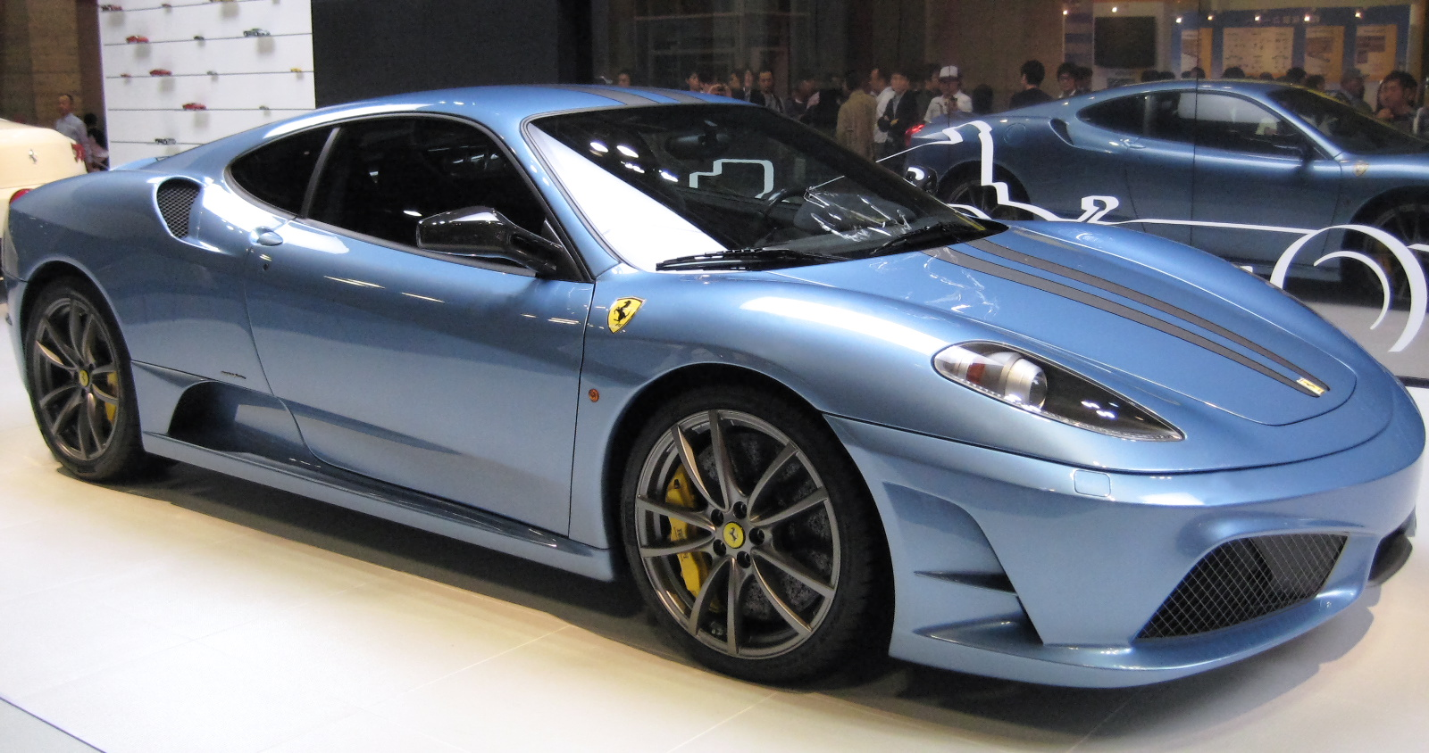 Ferrari F430 Scuderia in Tokyo Motor Show 2007